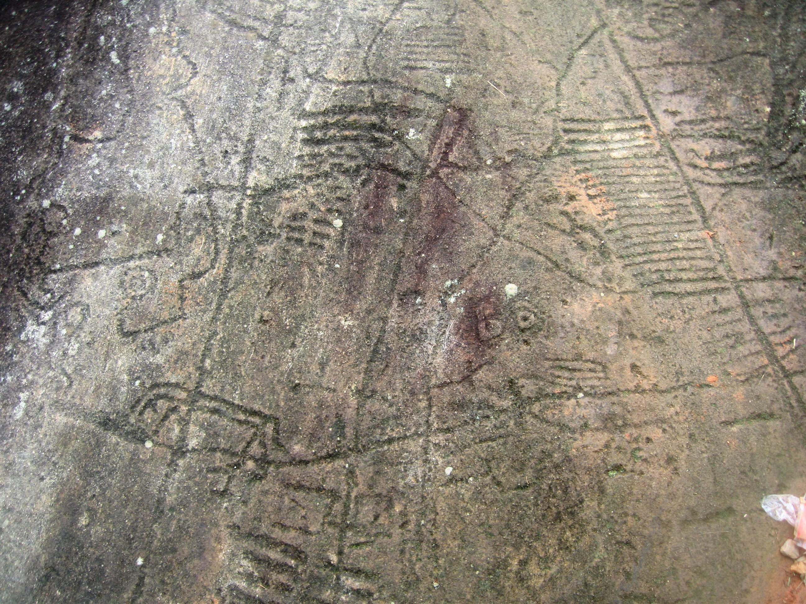 Ancient picture on stone in Sapa